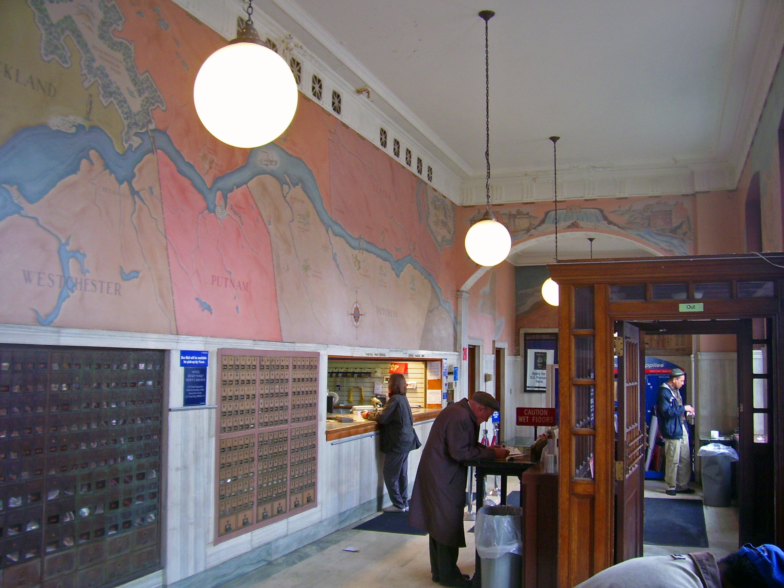 Public portion of interior of U.S. Post Office, Beacon, NY, with mural by Stephen Rosen showing a large-scale map of the Hudson Valley